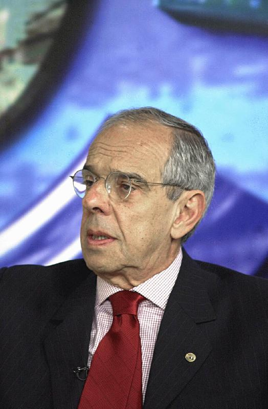 The Minister of Justice, Márcio Thomaz Bastos, grants interview on "Morning NBR", aired by TV channel out of Radiobrás.